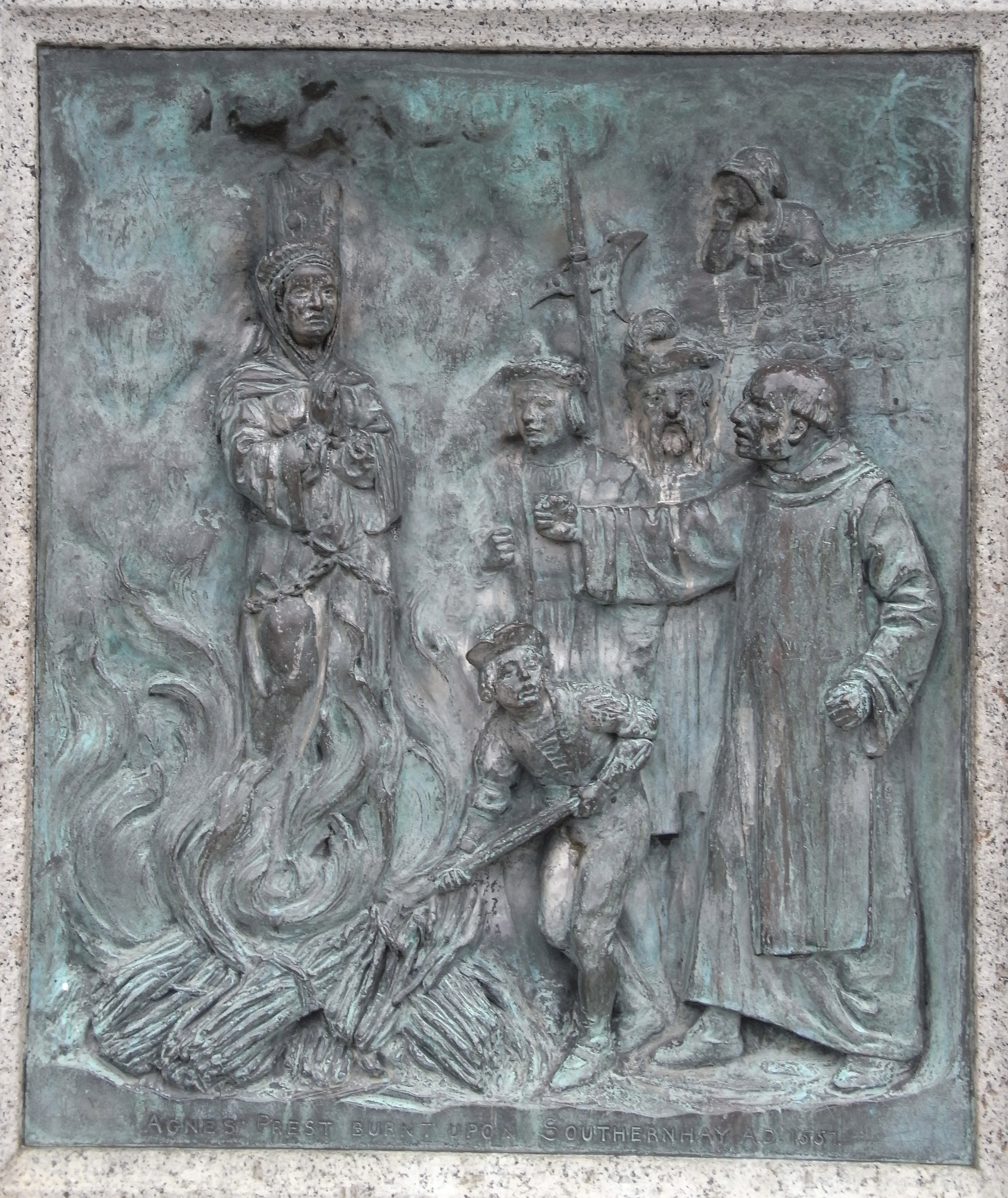 1909 bronze relief panel by Harry Hems on the Protestant Martyrs' Monument, Denmark Road, Exeter, Devon. It represents the protestant martyr Agnes Prest being burnt at the stake in 1557.